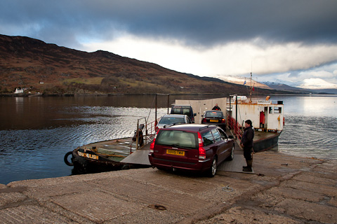 The MV 'Glenachulish' at Stromeferry slipway following the temporary reintroduction of the vehicle ferry service in 2012. The North Strome slipway is visible on the opposite bank of Loch Carron by the white building.